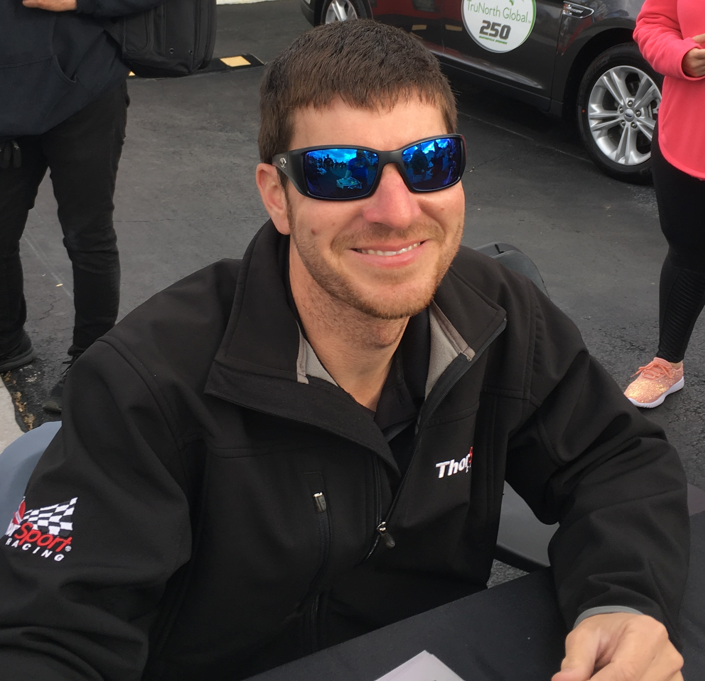 Grant Enfinger, driver of the #98 truck for ThorSport Racing, at an autograph session at Martinsville Speedway.